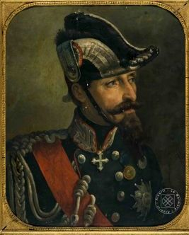 Portrait of italian general Alfonso La Marmora (1804-1878)